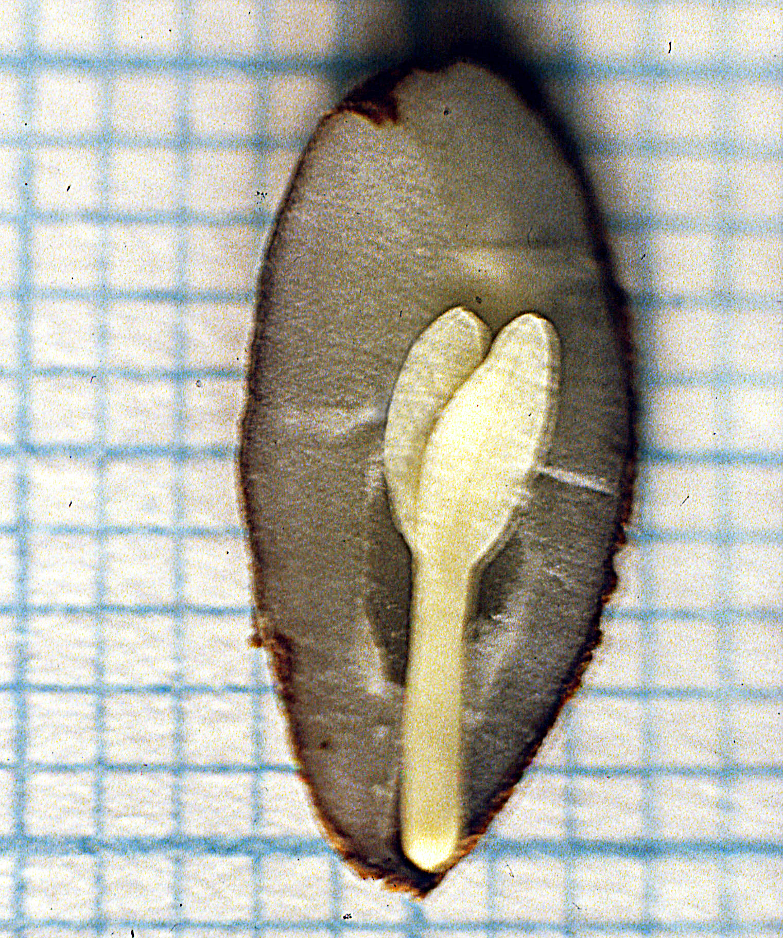 Longitudinal cut of Fraxinus excelsior seed